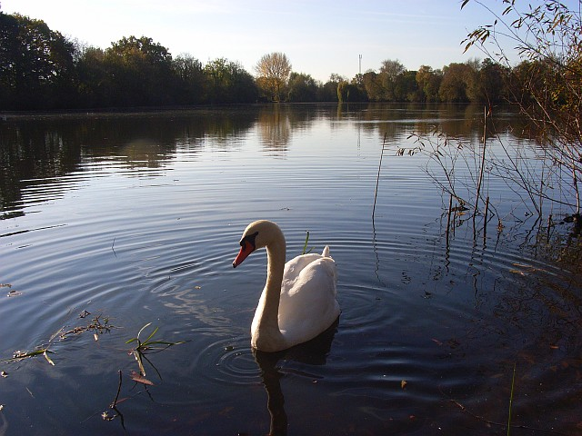 Former gravel pit, Twyford One of the five lakes in this grid-square, just south of the railway.